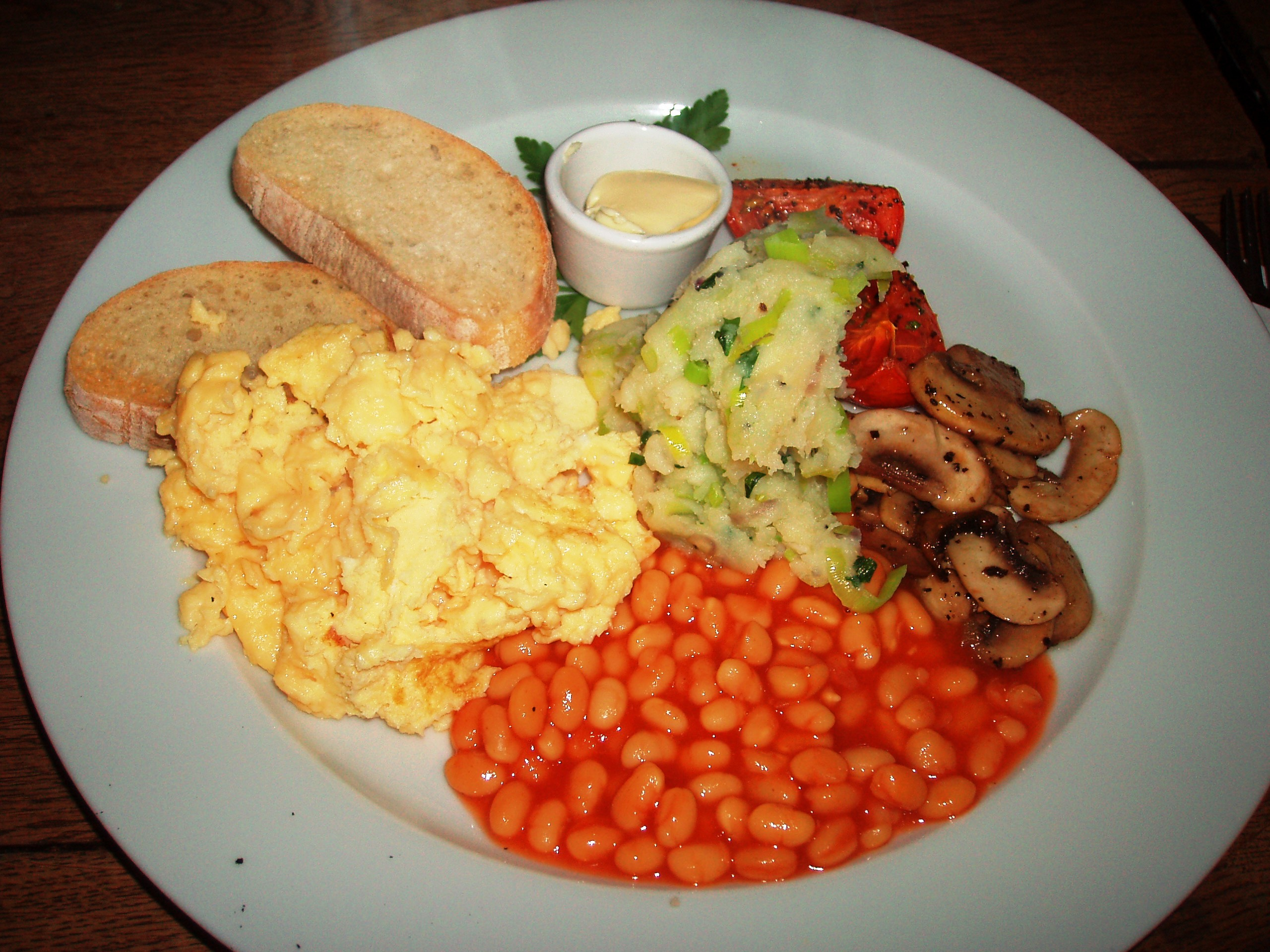 Sunday fry-up (vegetarian style). At Bar Story, Blenheim Grove.